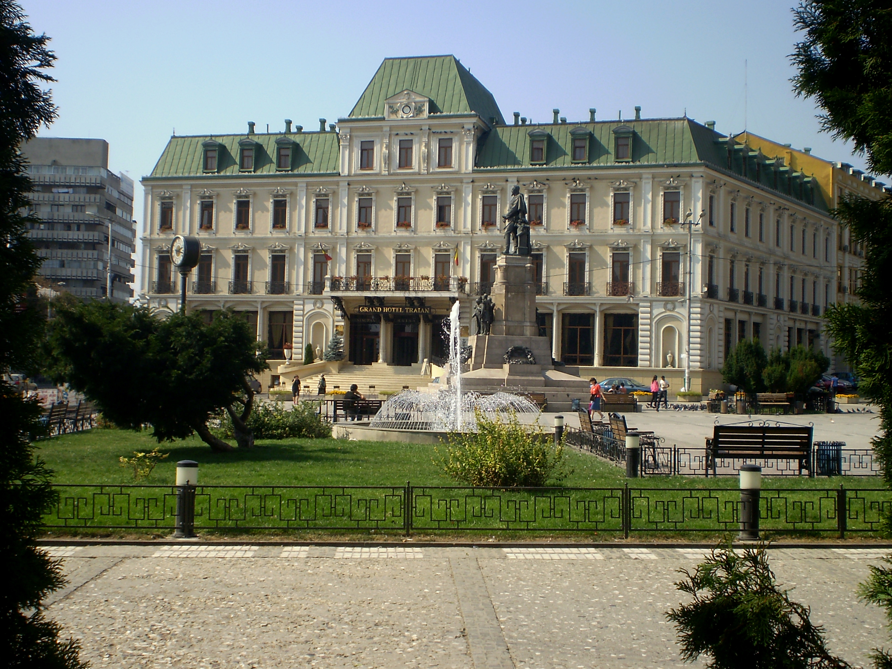 Iaşi , Union Square , Grand Hotel Traian , Iaşi ,RomaniaRomână: Iaşi , Piaţa Unirii , Grand Hotel Traian , Iaşi , România Object location47° 09′ 58.4″ N, 27° 34′ 45.63″ E